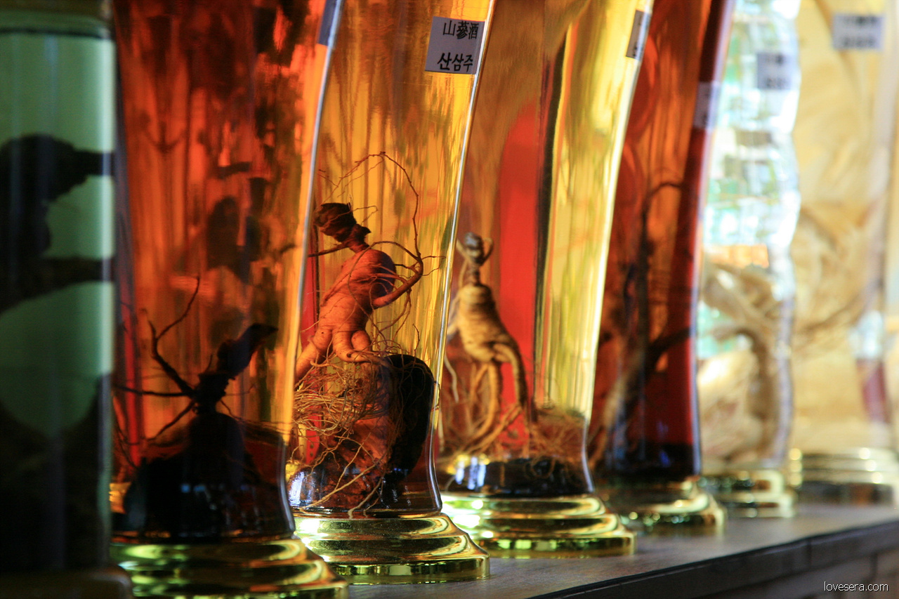 A view of Sokcho, Gangwon-do, South Korea